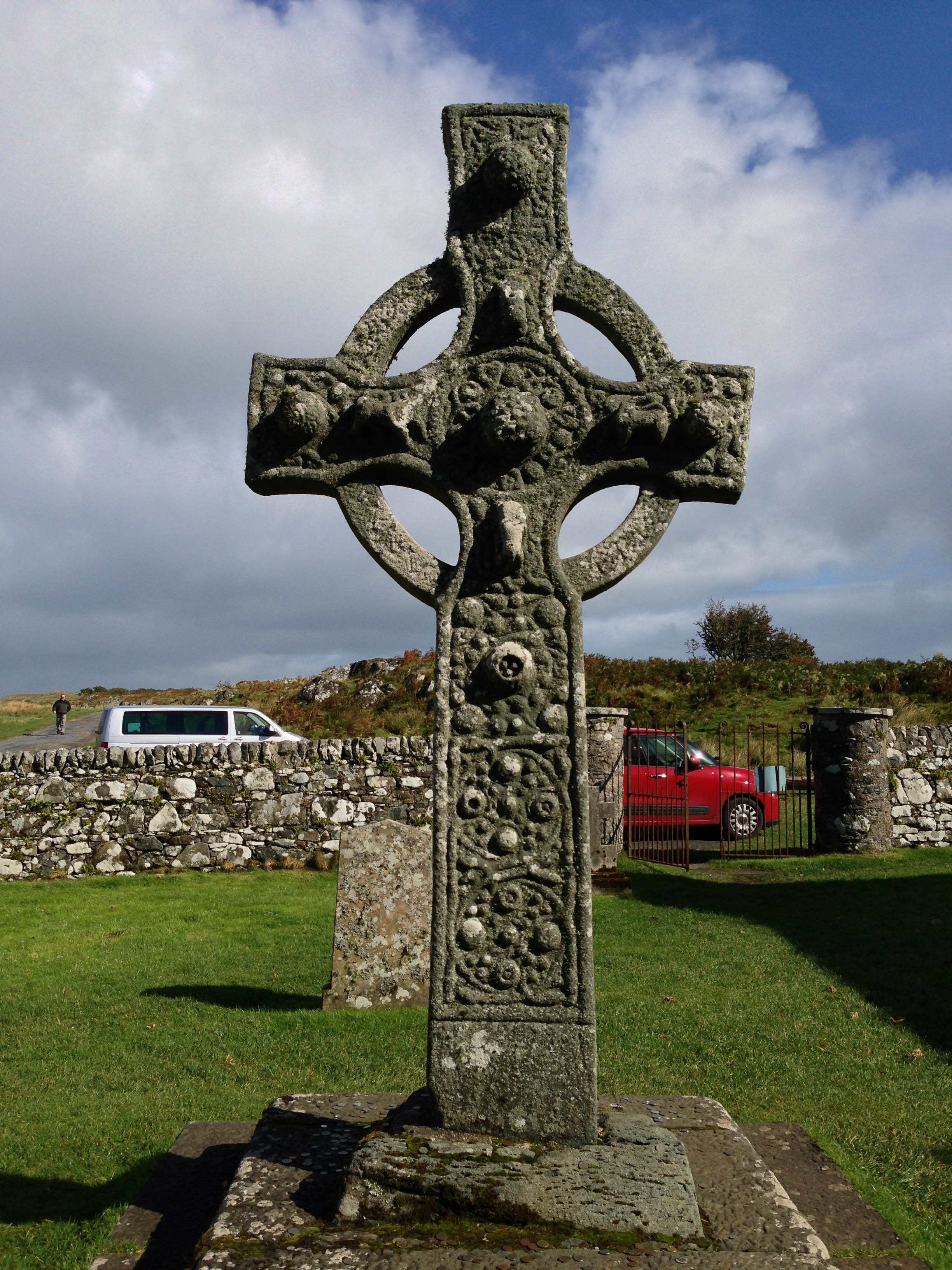 It's from the 8th century!